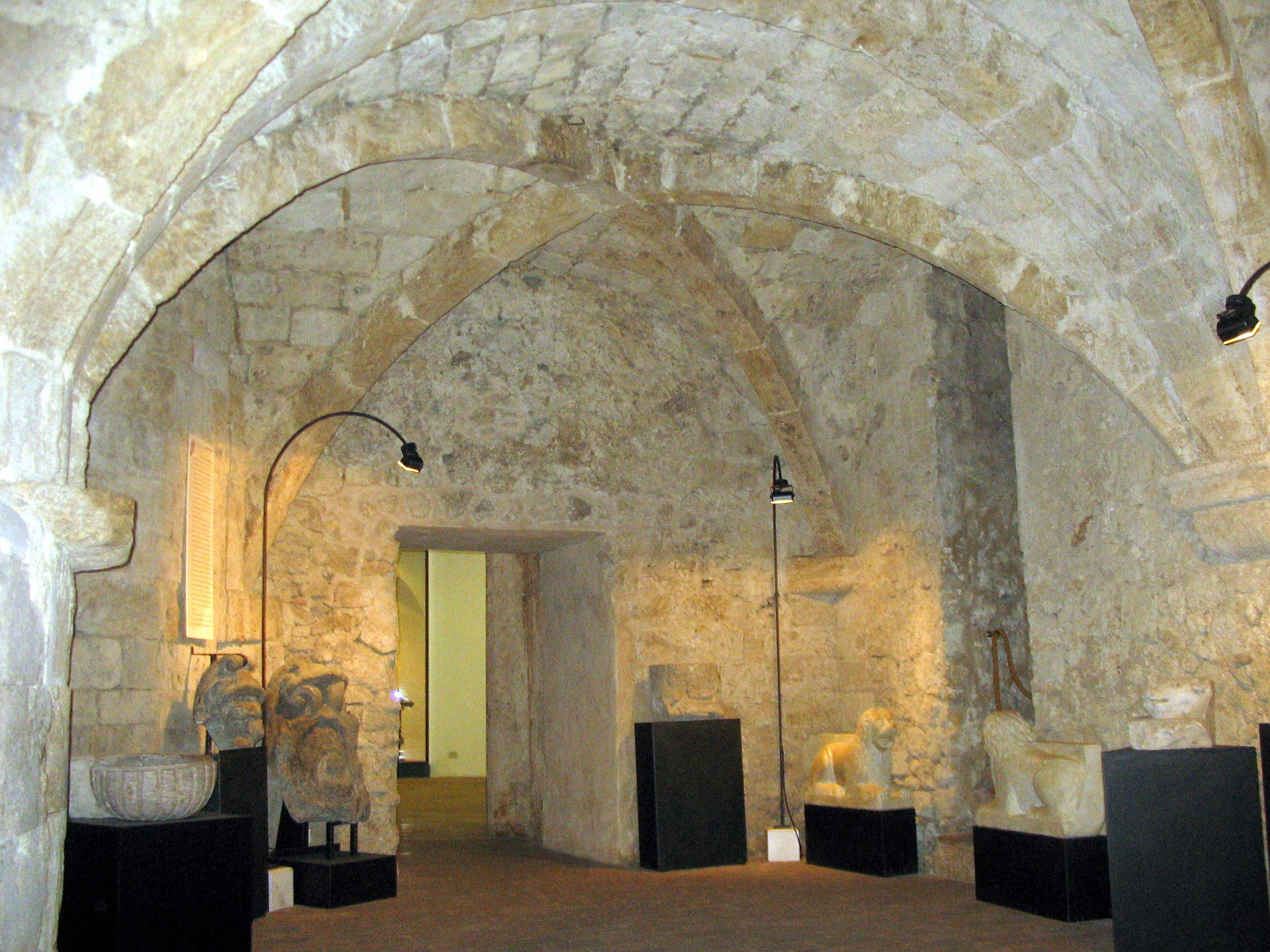 Museo Diocesiano - Rieti, Lazio, Italia